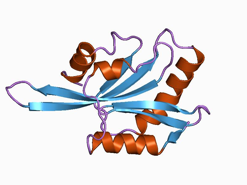 Cartoon representation of the molecular structure of protein registered with 1cof code.